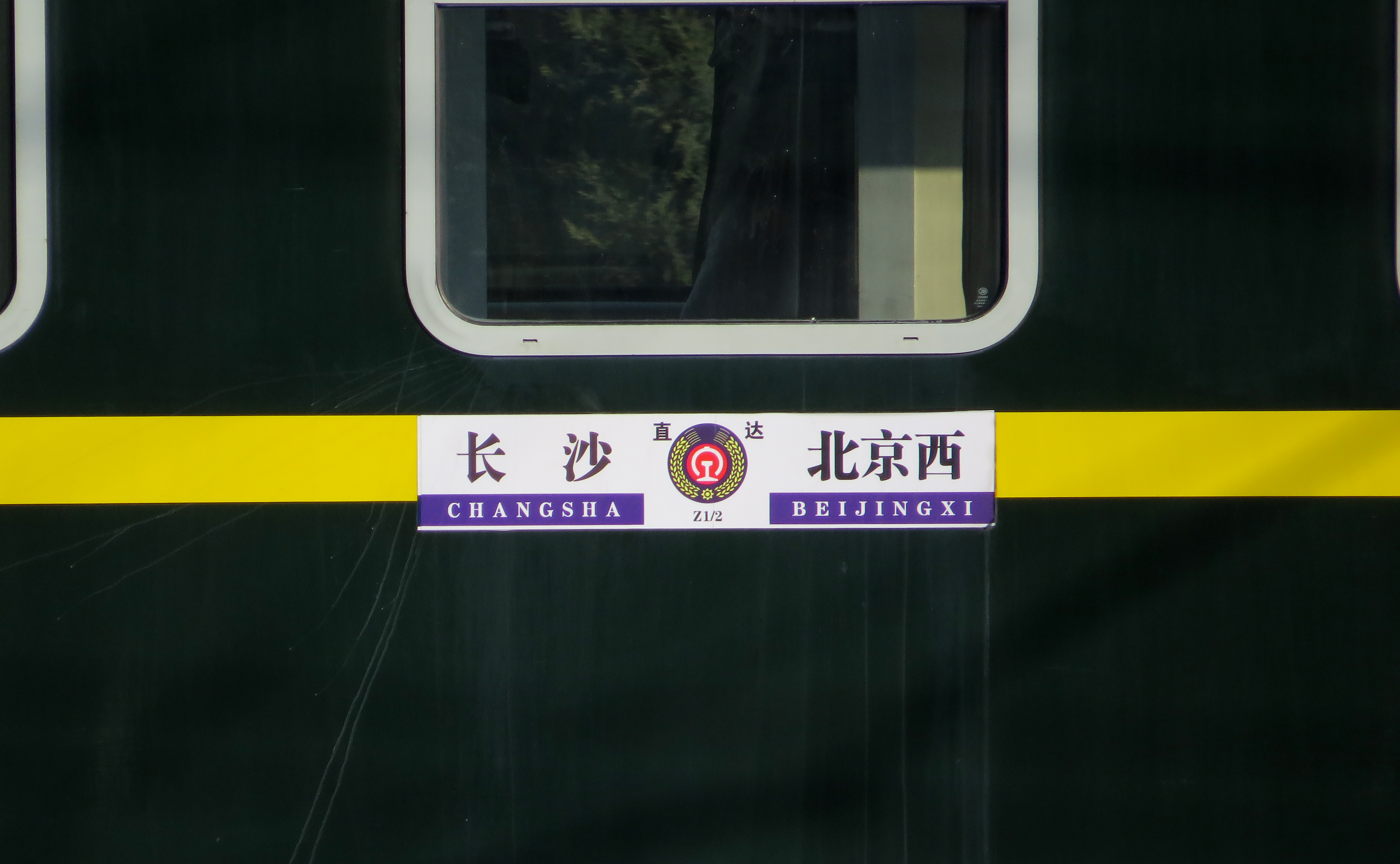 But the train number sequence...